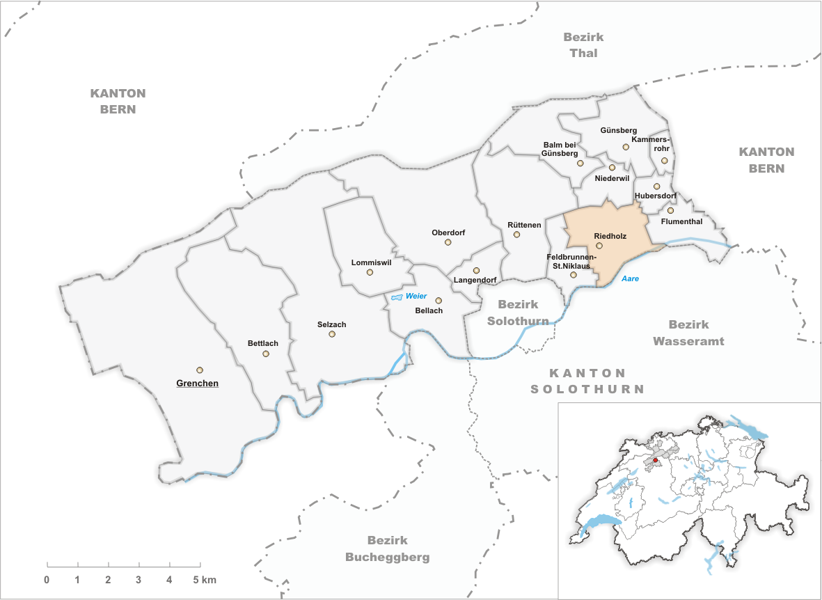 Municipality Riedholz